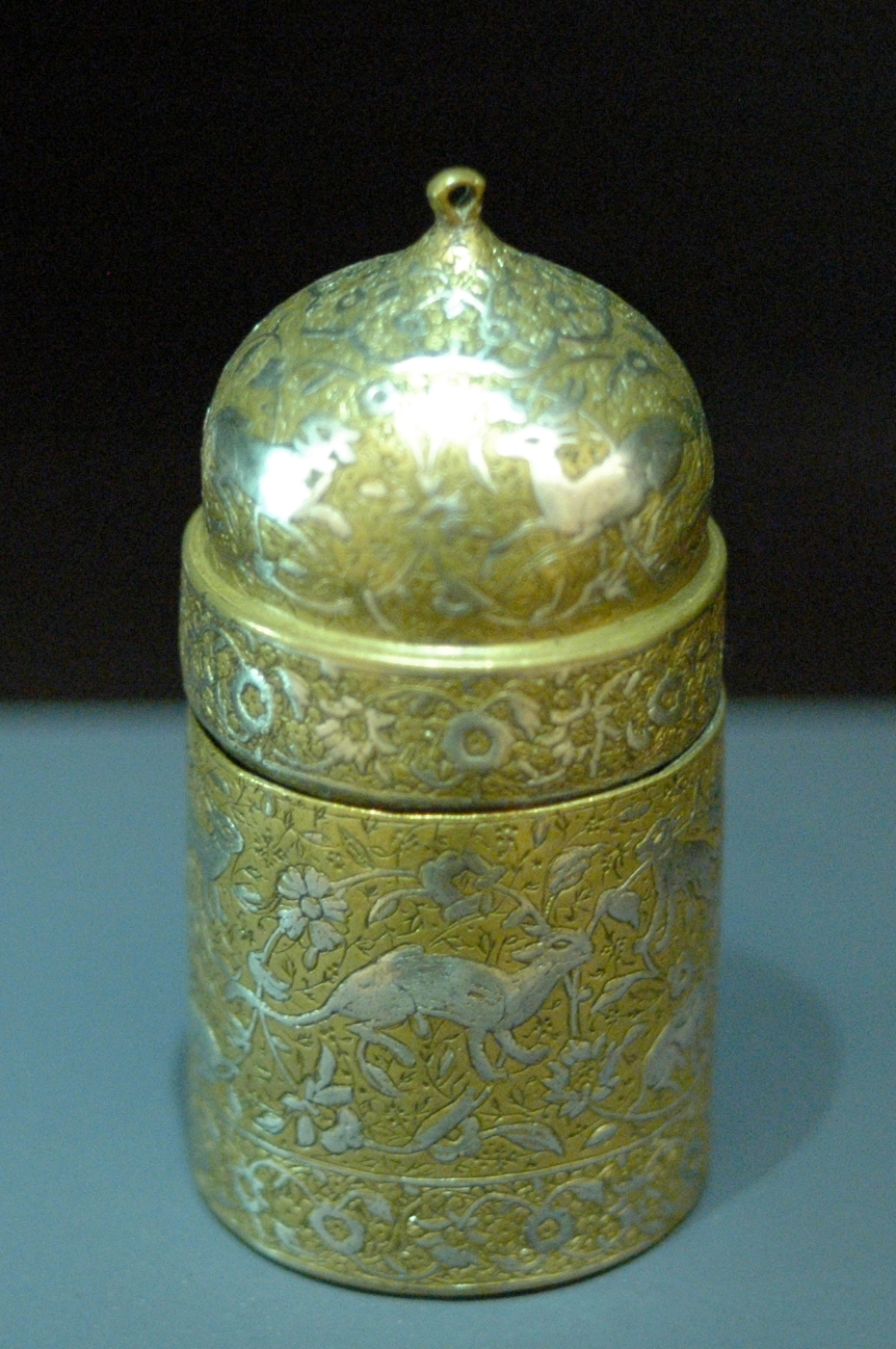 Inkwell. Copper alloy with silver inlaid decoration. Second half ot the 16th century, Iran. Metropolitan Museum of Art (MET 41.120a, b).